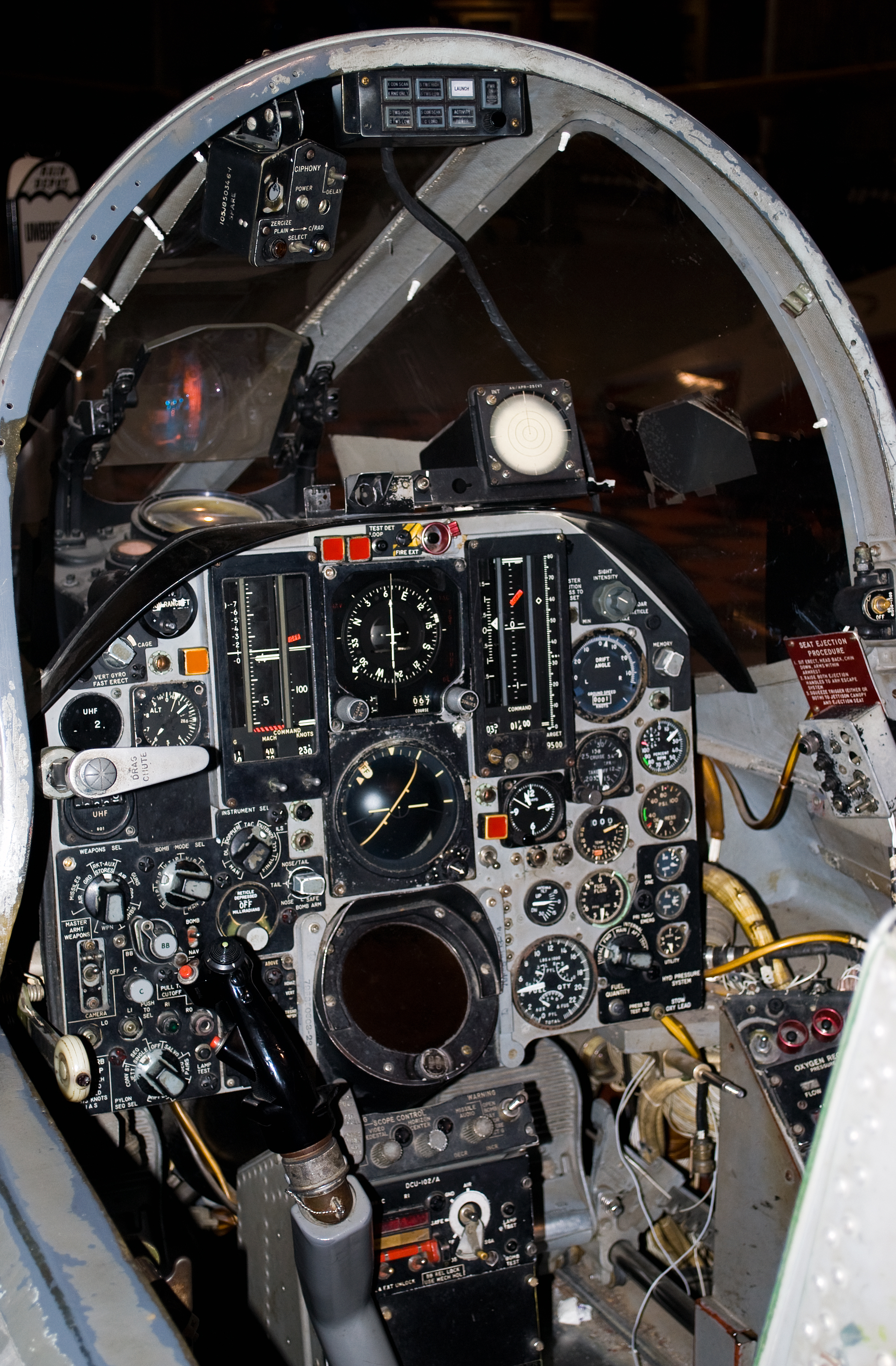 Cockpit of a Republic F-105 Thunderchief. Picture taken at the Museum of Aviation in Georgia, USA.